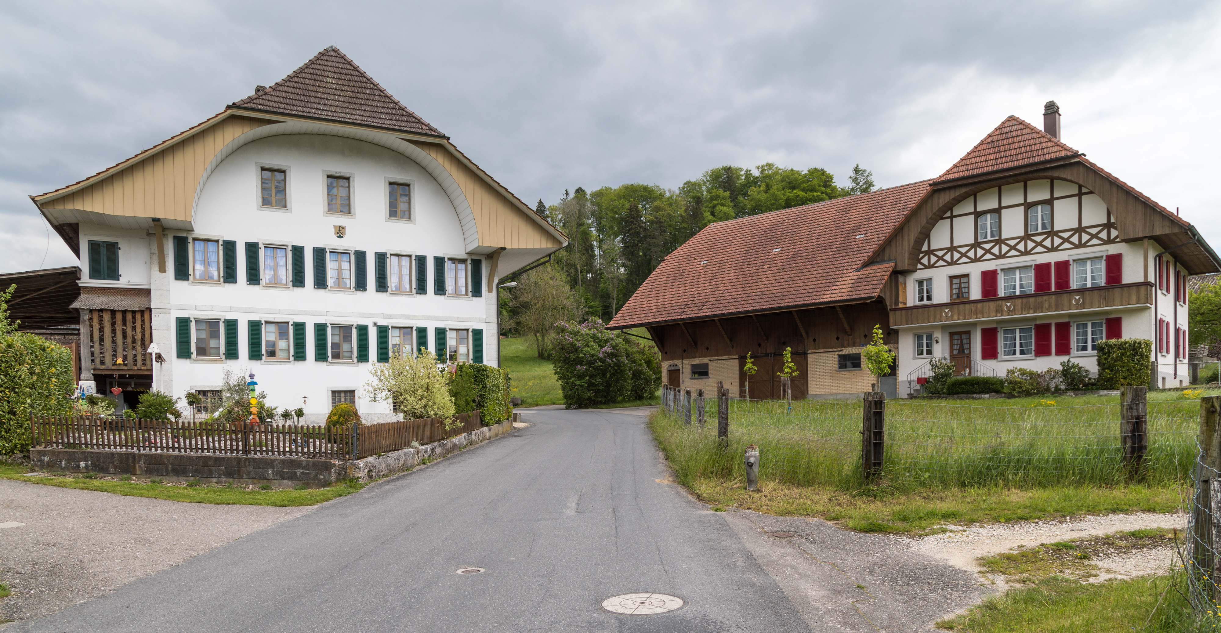 Leuzingen, canton of Bern: former mill (built 1821) and farm house (built about 1925)